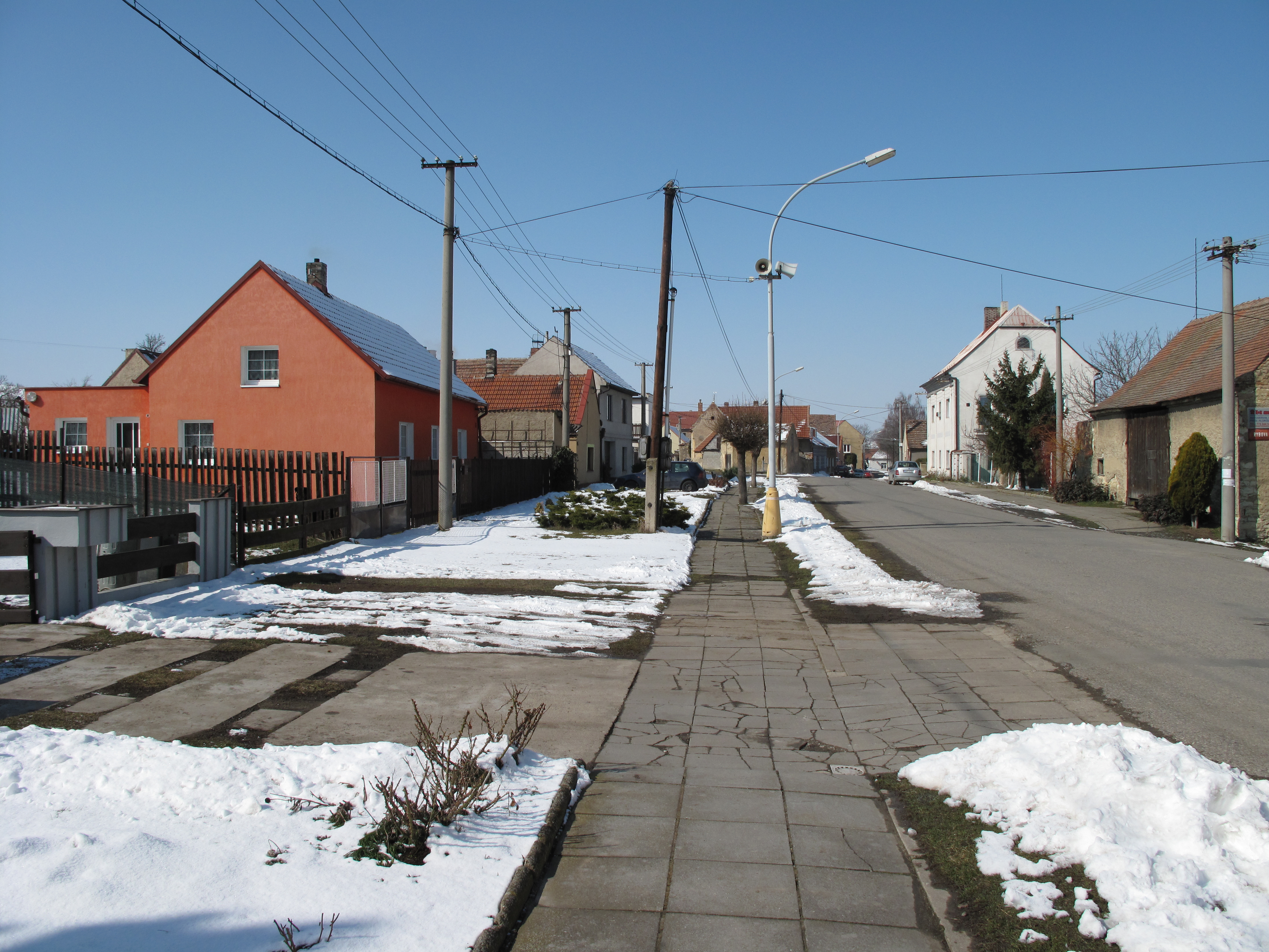 Street in Dřínov village, Kladno District, Czech Republic.